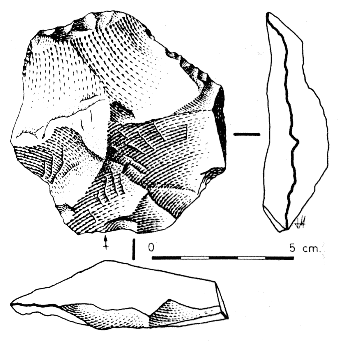 Levallois flake (Belver de los Montes, Zamora, Spain)